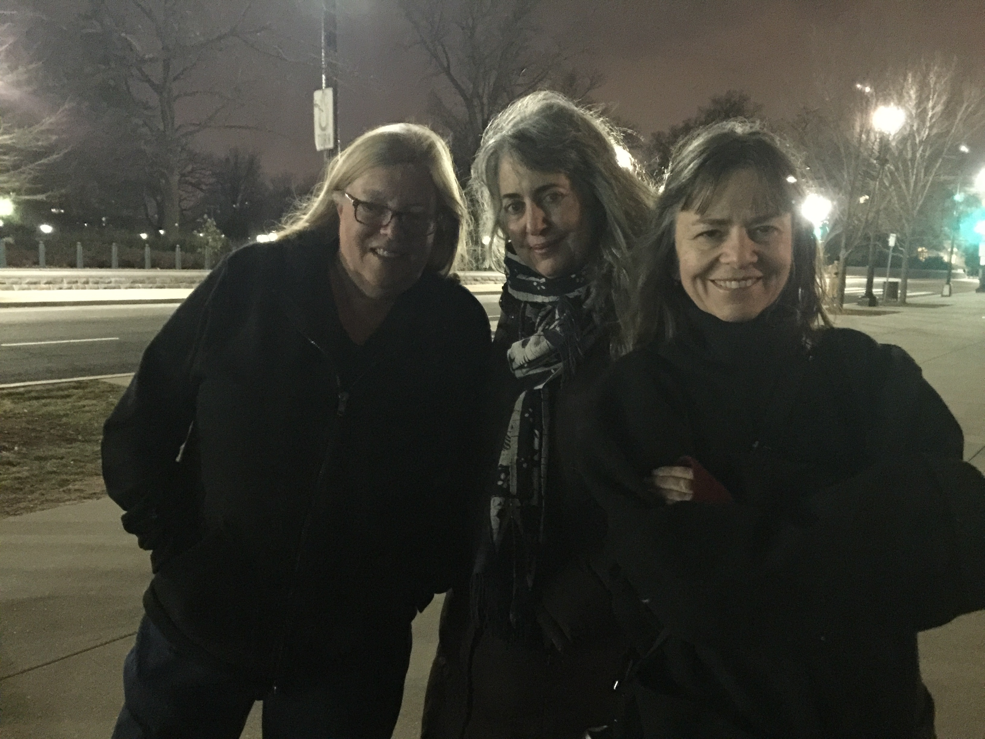 Donna Ferrato (right) and friends at the Supreme Court of the United States on 1 March 2016